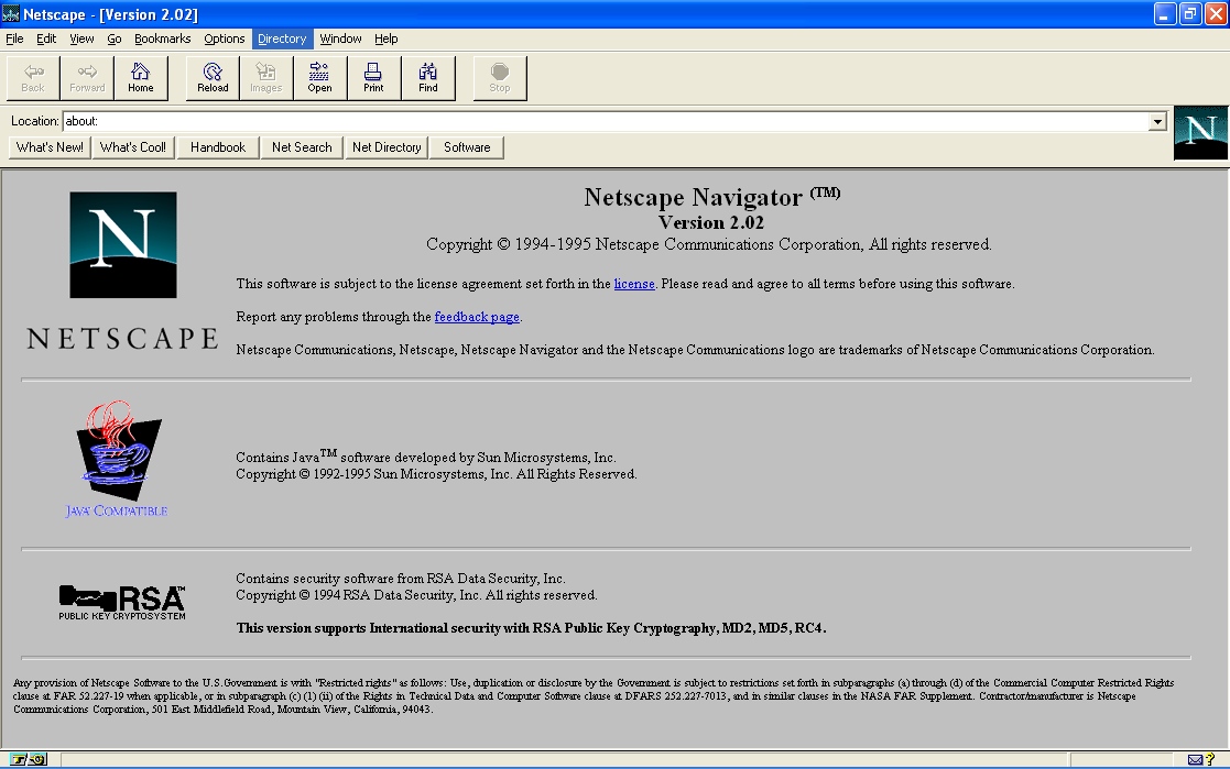 Screenshot of Netscape Navigator browser about: page. Version 2.02 running on Windows XP.